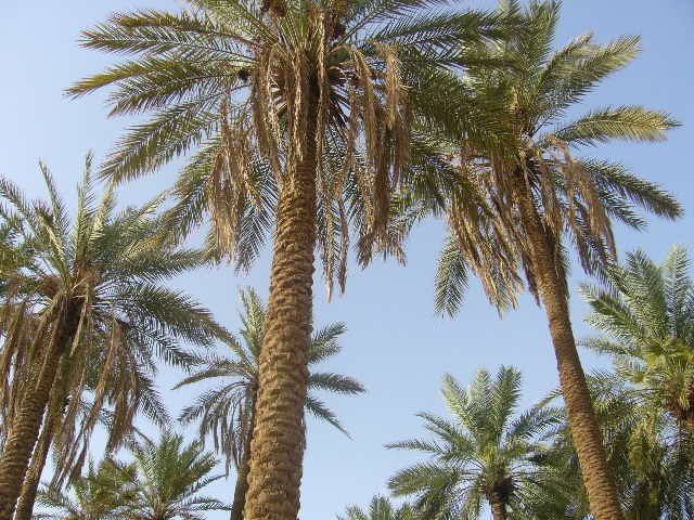 Date palm trees (Phoenix dactylifera) in the city of Unaizah - Saudi Arabia.